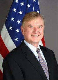 Frank C. Urbancic, Jr. As of 2009, the United States ambassador to Cyprus.